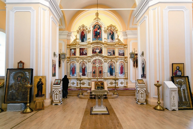 Upper church